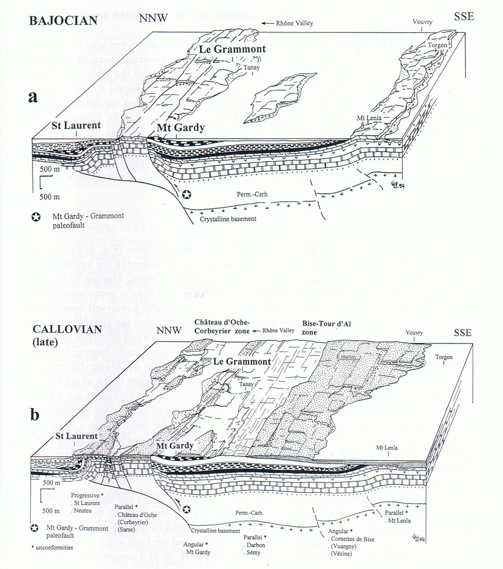 Septfontaine M. (1995) : Eclogae geol. Helv. 88/3, 553-576. 9a. Block diagram and palinspastic profile of eastern Chablais (France) during Bajocian times, showing relations between paleostructures at depth and superficial relief evolution. 9b. Same area during late Callovian times. Compressive movements trigger the uplift of the central part of the Briançonnais carbonate platform (Bise-Tour d'Aï zone) with emersion and erosion in the Château d'Oche zone. The middle Jurassic Mytilus formation (stippled) is strongly eroded by karstic dissolution. Along the northern coast, rivers brought coarse sediments coming from middle liassic outcrops of the Bise-Tour d'Aï zone. This paleotectonic event has been previously called the Callovo-Oxfordian Phase by Septfontaine (1984). The new palinspastic profile replaces the old model of Baud & Septfontaine (1980) which is now obsolete.